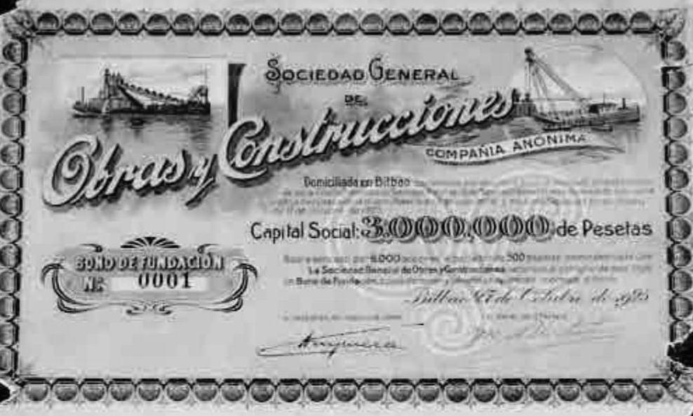 corporate bond issued by a Bilbao-based Obrascón company